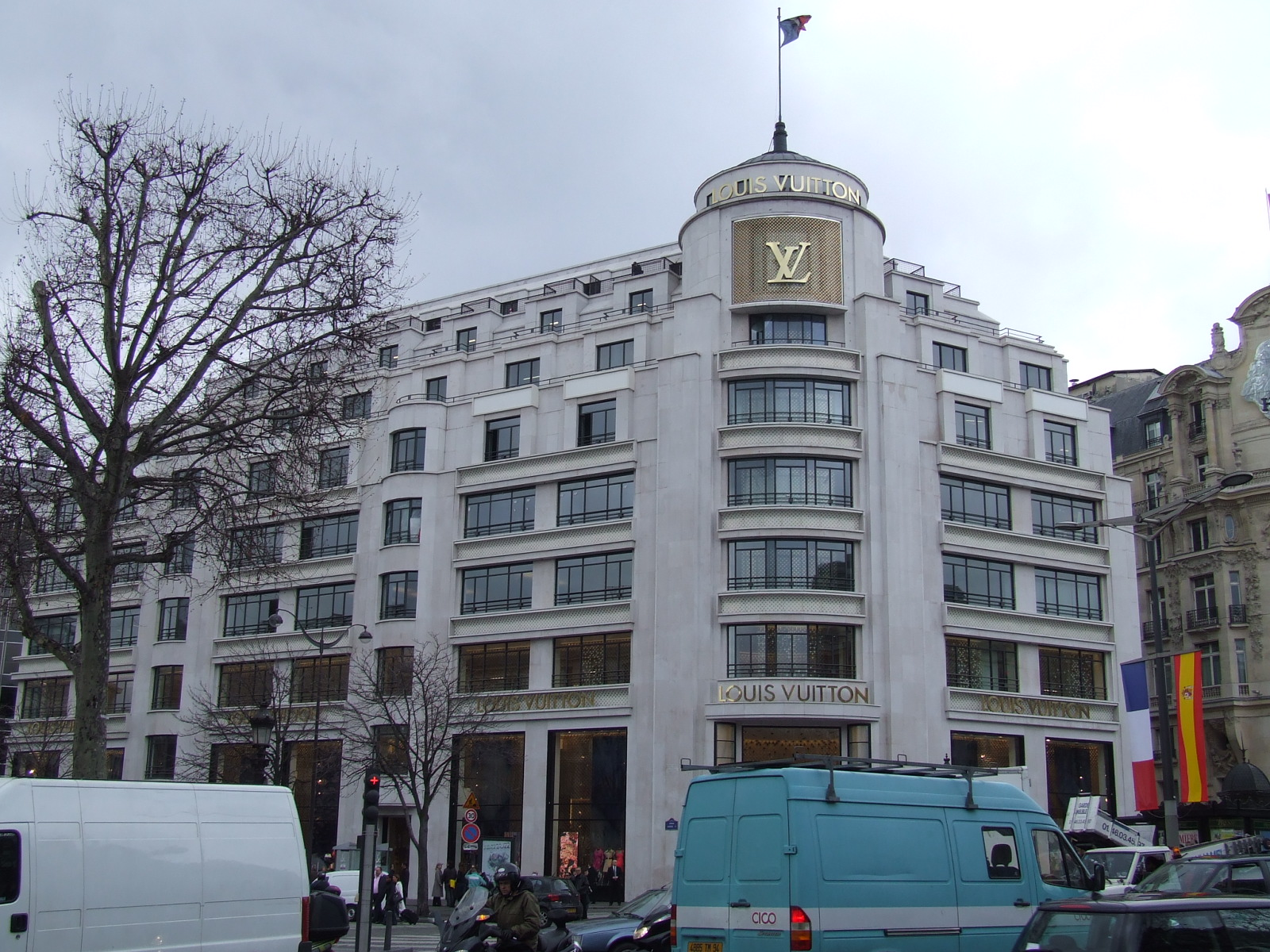 Building of 〝Louis Vuitton〟 home store,Paris,France